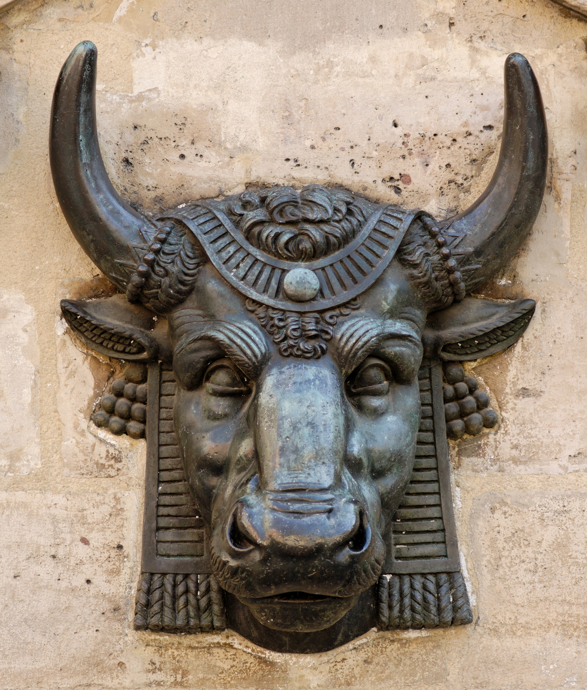 Bull's head by Edme Gaulle (French, 1762–1841). Bronze, 1819, H. 19 cm (7 ¼ in.). One of a pair, formerly used as the head of a fountain at the Blanc-Manteaux market, now at no. 8, rue des Hospitalières-Saint-Gervais, 4th arrondissement of Paris.